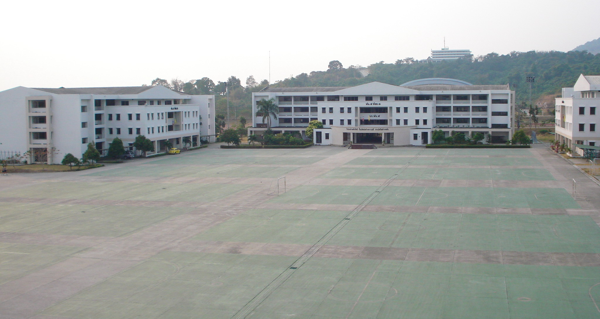 Armed Forces Academies Preparatory School, Thailand in Amphoe Ban Na, Nakhon Nayok Province, Thailand.